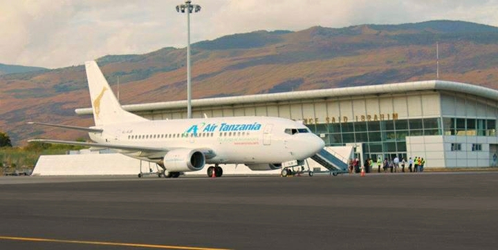 Air Tanzania Boeing 737 at Prince Said Ibrahim International Airport, Comoros.